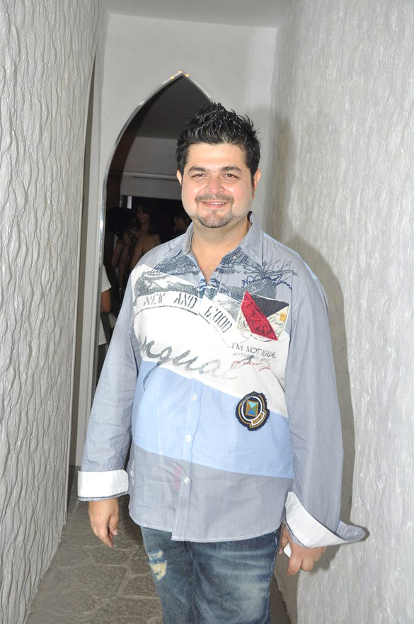 Dabboo Ratnani grace Kallista Spa opening